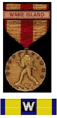 Wake Island Device